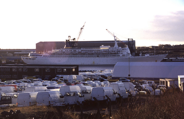 Cammell Laird across the Tyne Cammell Laird ship repairing yard with Big Red Boat II (ex Eugenio C, Eugenio Costa, Edinburgh Castle) being readied for her lease to Premier Cruises. This vessel is now razor blades/history. Awful picture but the best I could do. Machinery space pictures were taken.